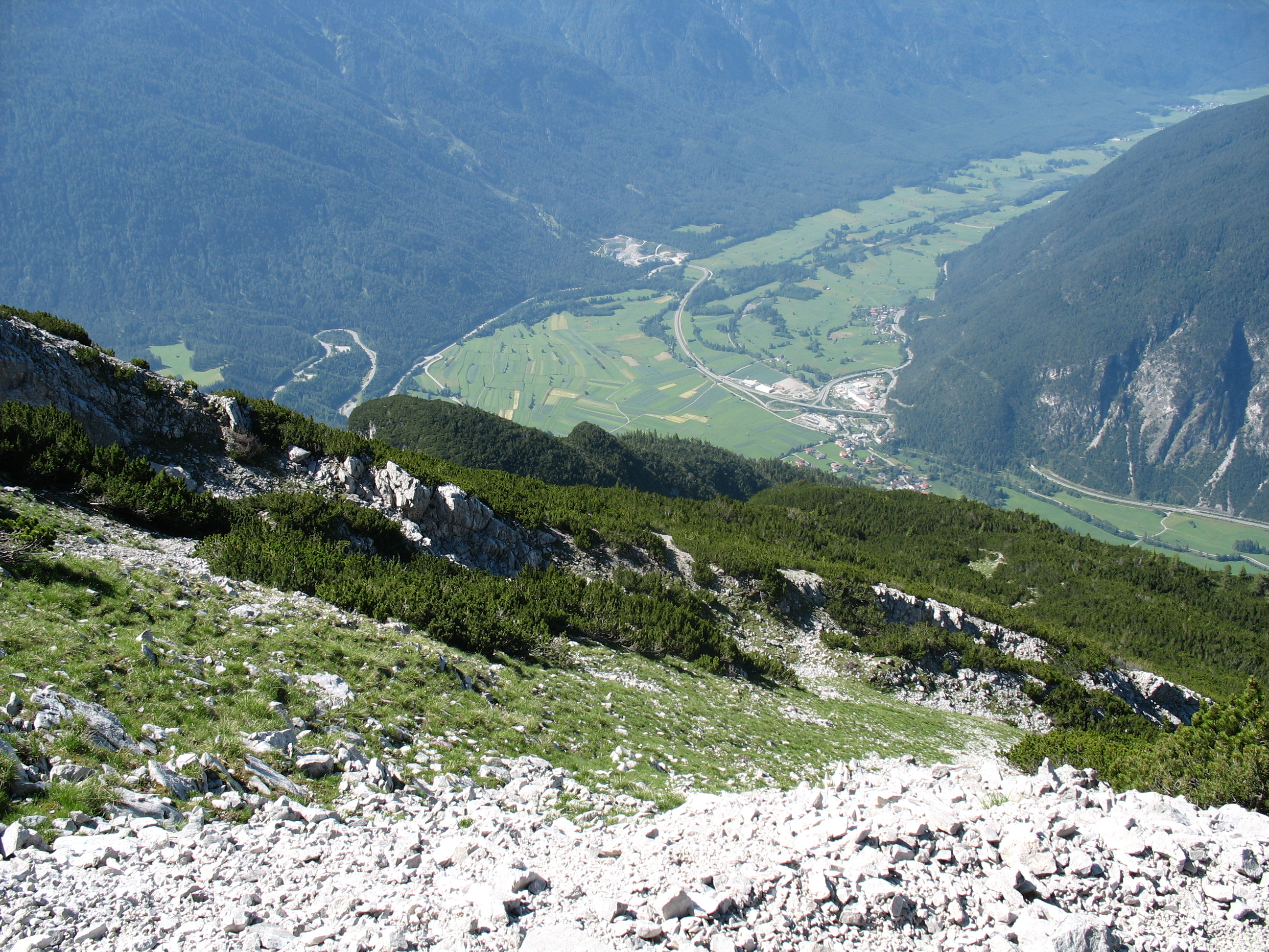 Nassereith as seen from Wanning